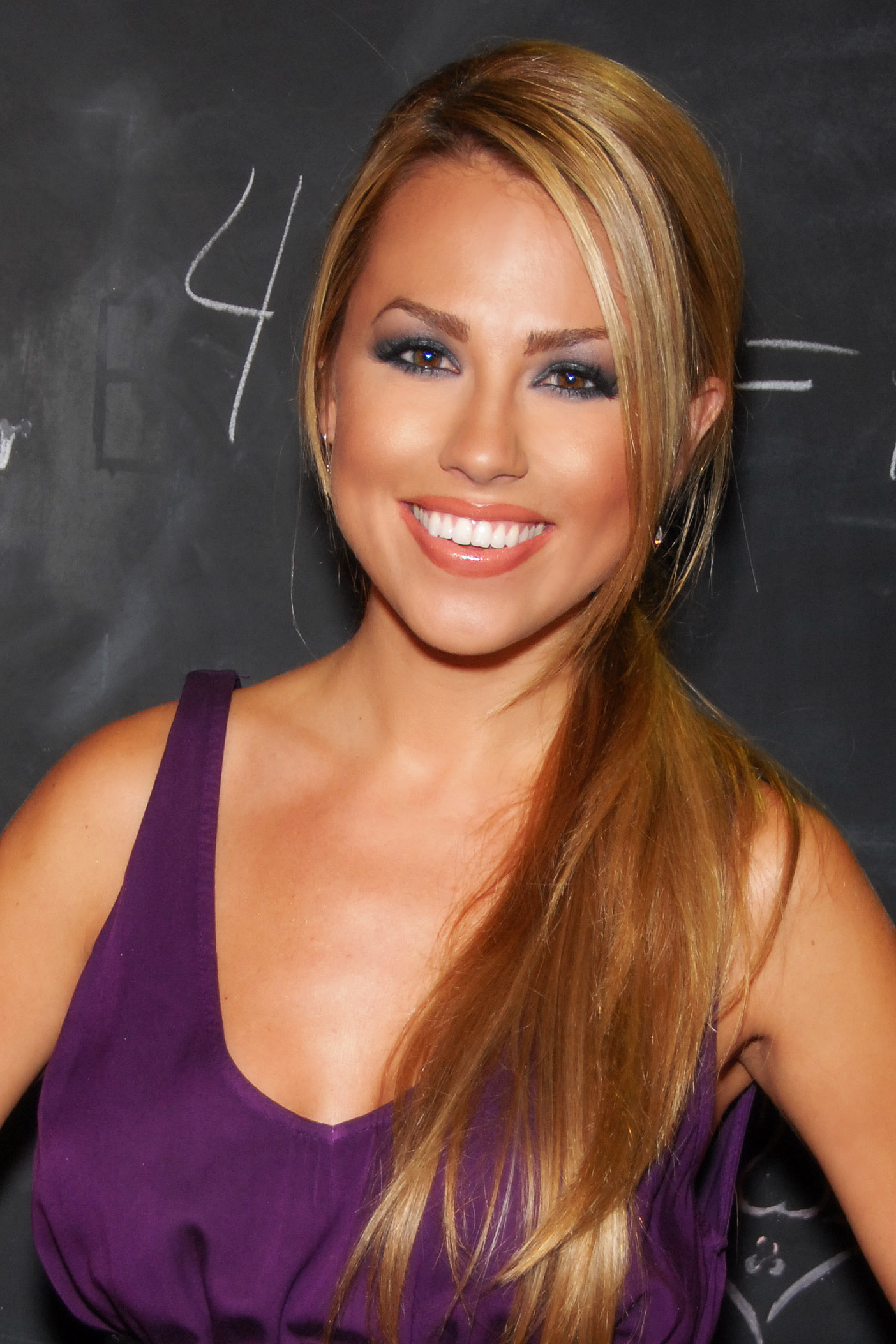 This is NOT the Jessica Hall from England. Jessica Hall attending the Benchwarmer "Back-to-School" Party combined with Benchwarmer Founder Brian Wallos Birthday Party at Empire, Hollywood, CA on Aug. 28, 2009 - Photo by Glenn Francis of